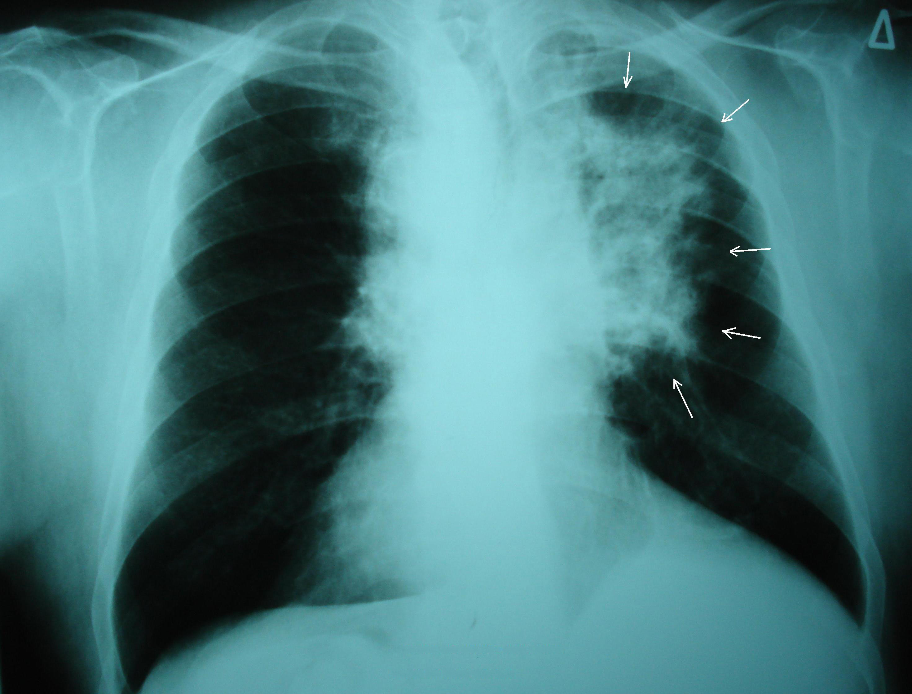 Lung cancer in xray